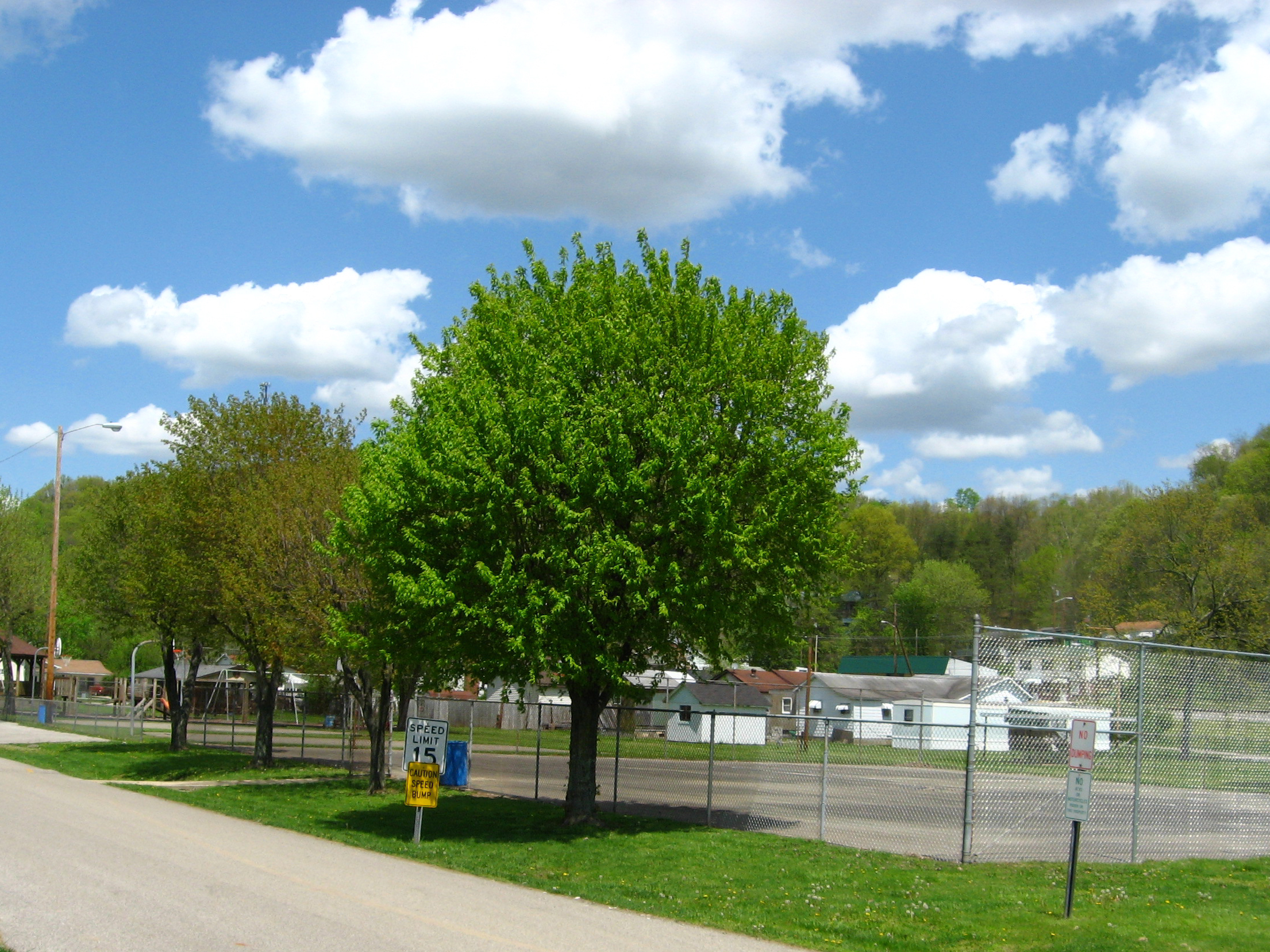 Photo of the city park in Bancroft, West Virginia